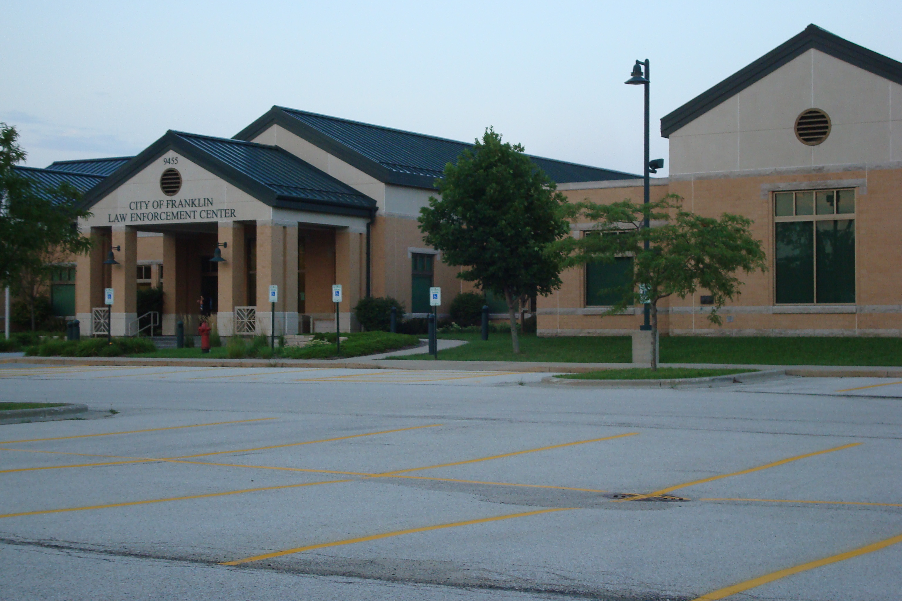 Franklin Wisconsin Law Enforcement Center (Police Station and Municipal Court)